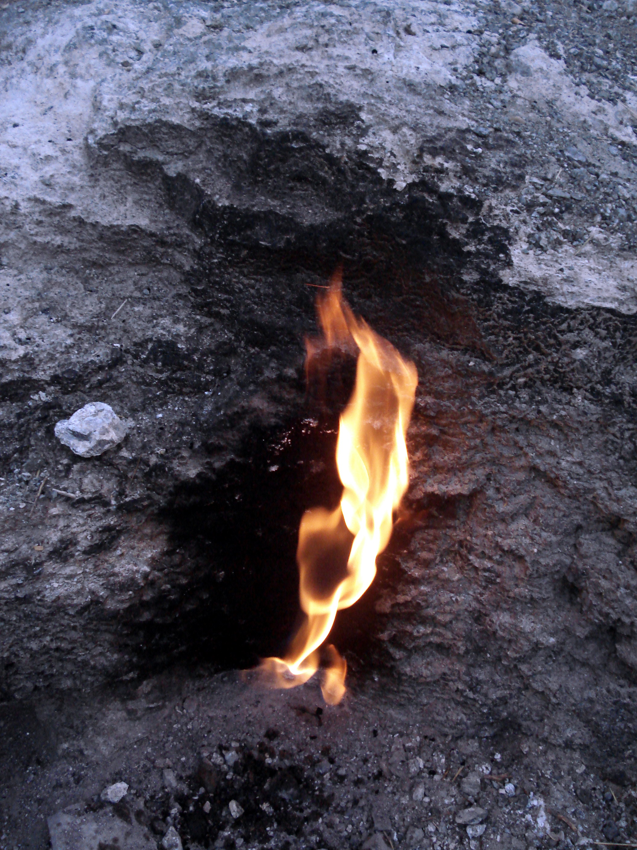 Close-up view of the eternally 'flaming stones' of Yanartaş (the ancient Chimaera) near Çıralı in Lycia region of Anatolia, southwest Turkey. The flames come from leaking natural gas. . .